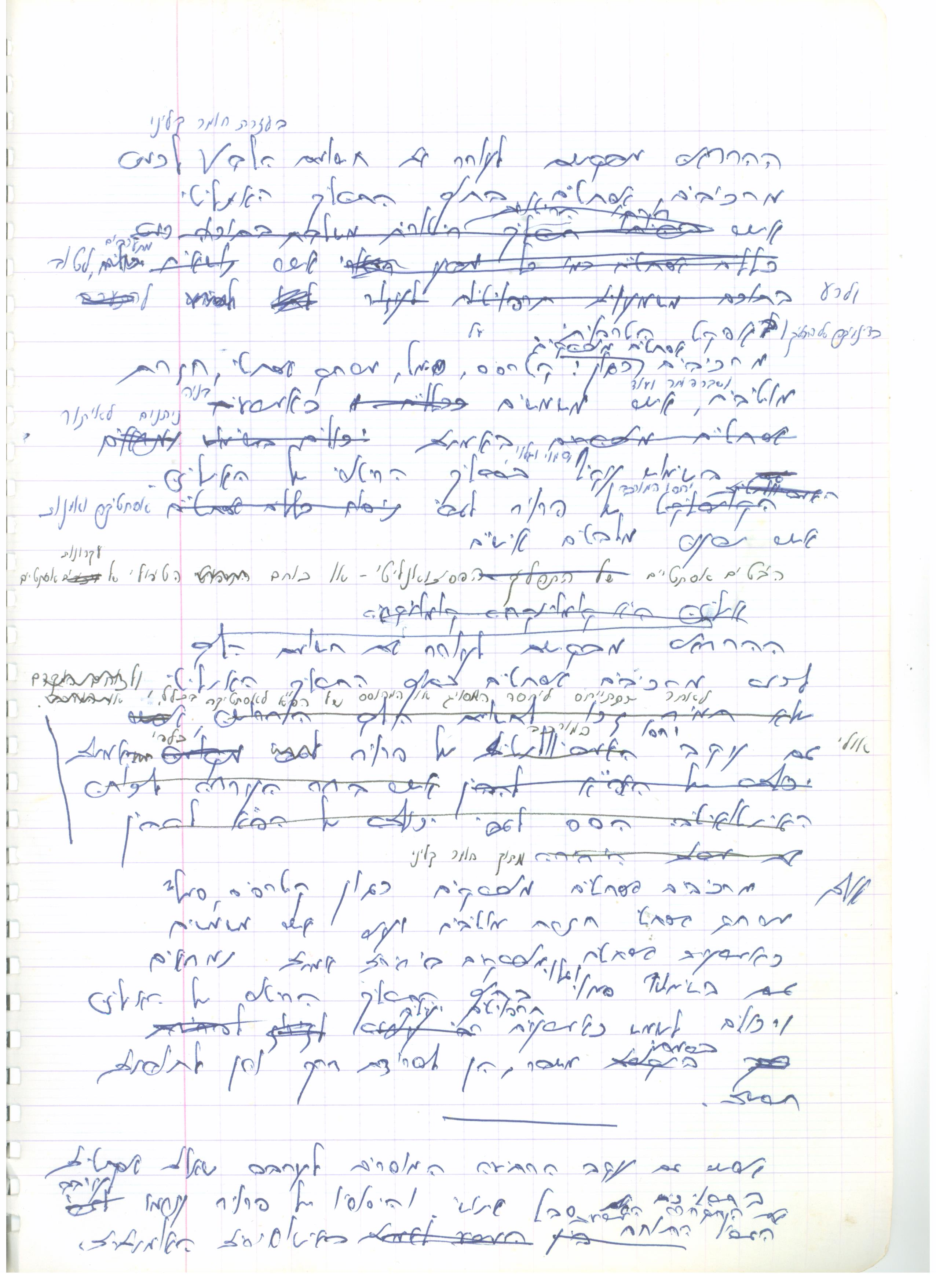 The handwriting of A B Yehoshua with edits by his wife Rivka concerning a lecture of Rivka in the psychoanalytic institute. written during the 90's